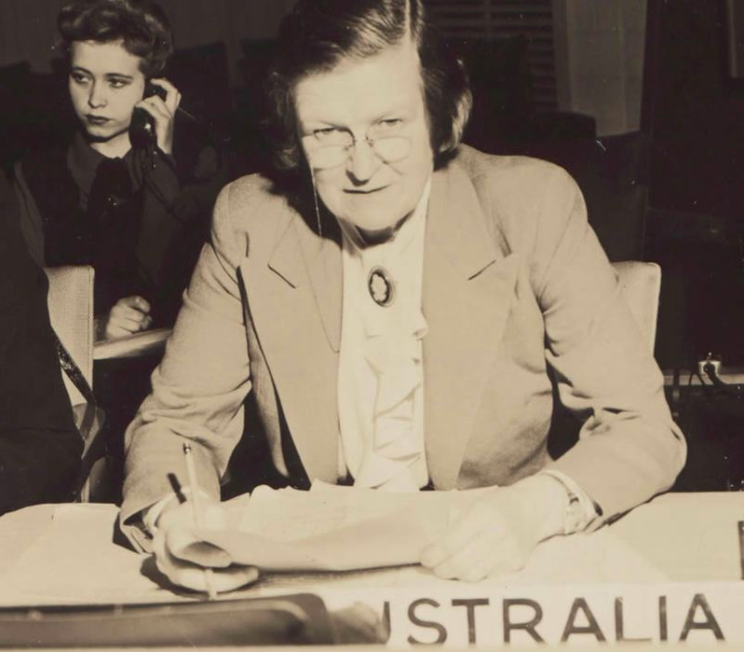 Lady Jessie Street as the only female delegate from Australia at the San Francisco conference for the establishment of the United Nations in 1945